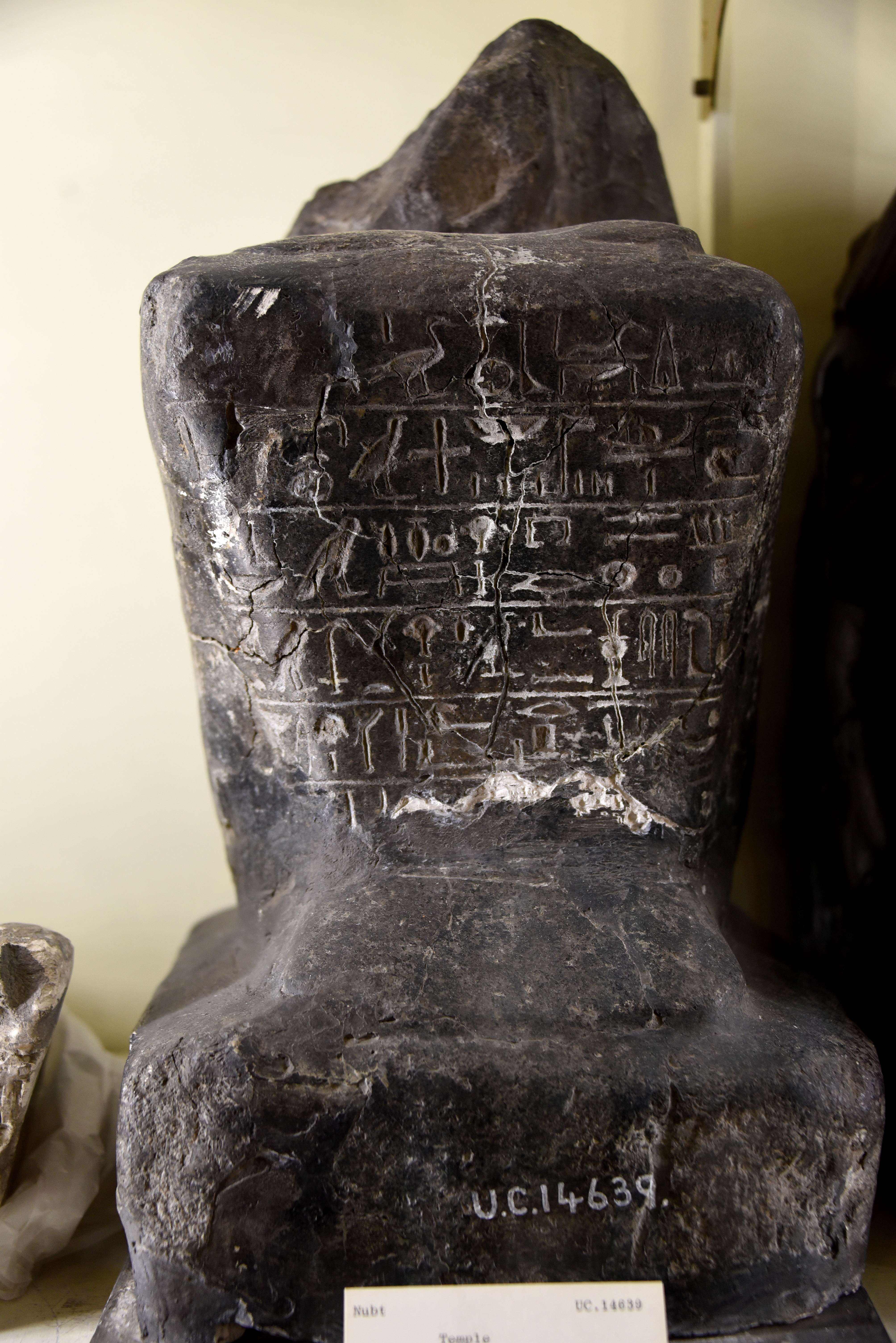 Black granite, seated statue of Sennefer with cartouche of Amenhotep (Amenophis) II on right arm. The hieroglyphic inscription says that this statue was a gift from the king to tge Mayor Sennefer of the Southern City. From the temple of Seth (Nubt) at Naqada, Egypt. The Petrie Museum of Egyptian Archaeology, London. With thanks to the Petrie Museum of Egyptian Archaeology, UCL.